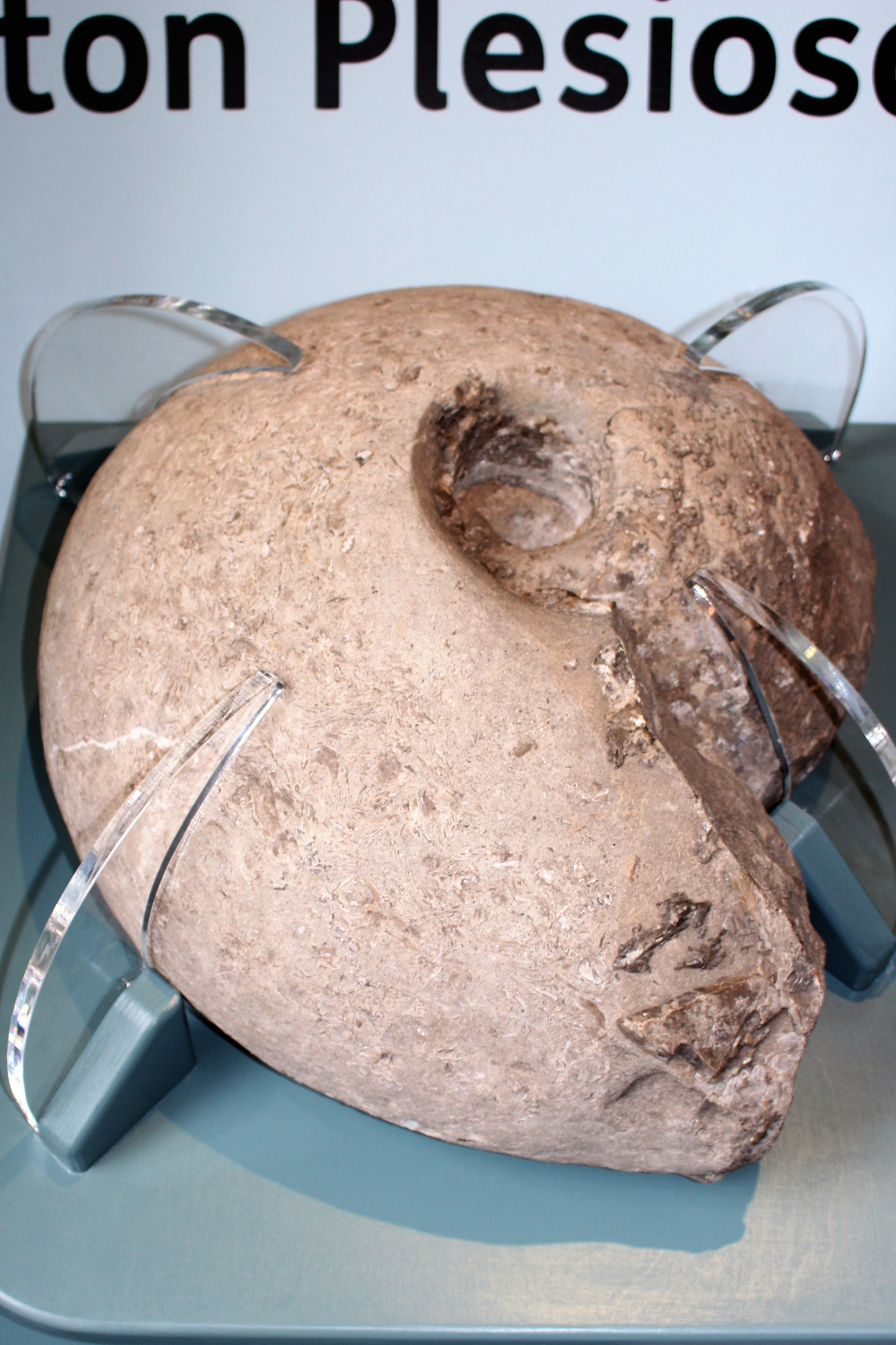 Unidentified Goliathiceras sp. in the Rotunda Museum, Scarborough, England.